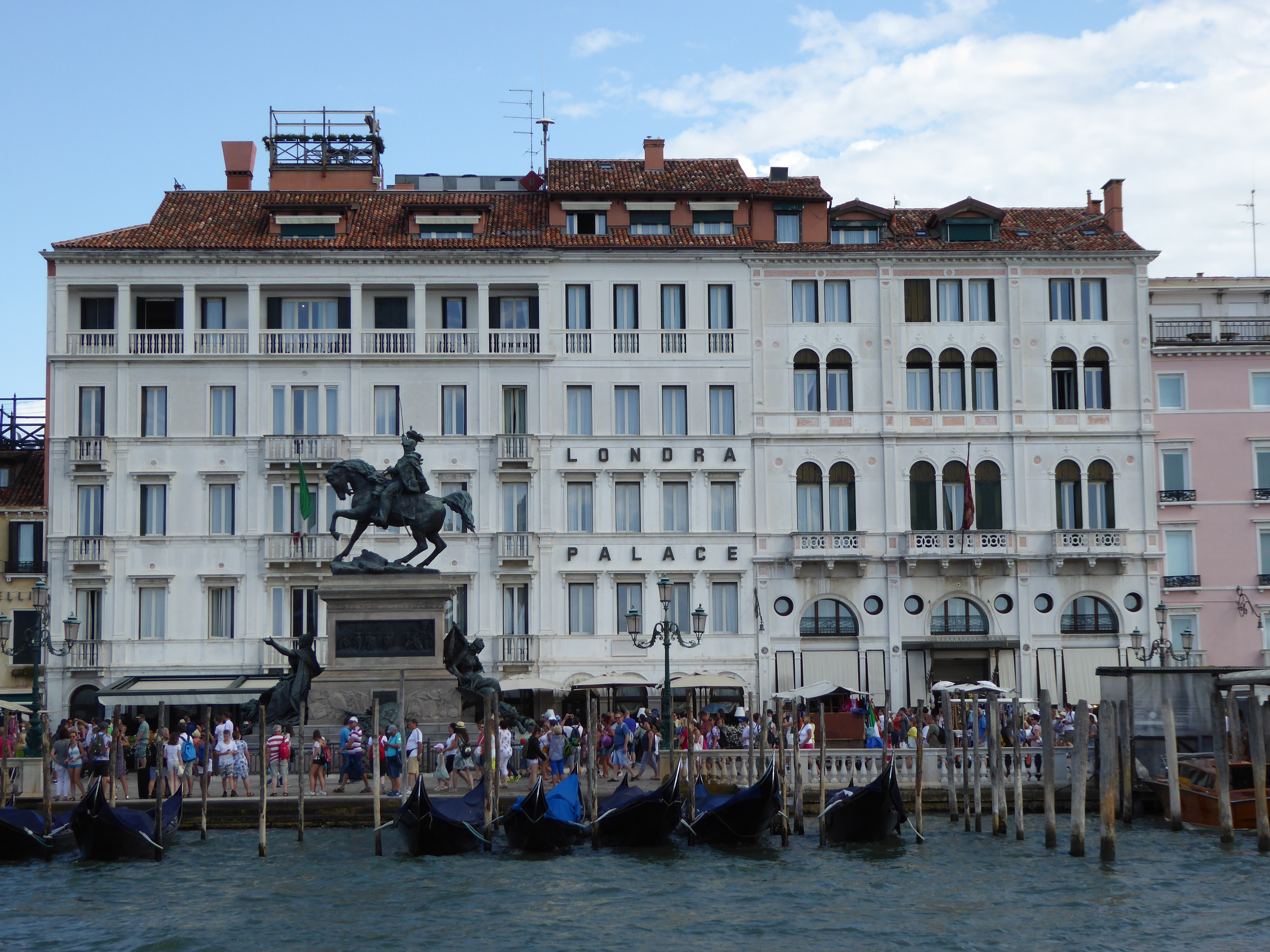 venice pictures